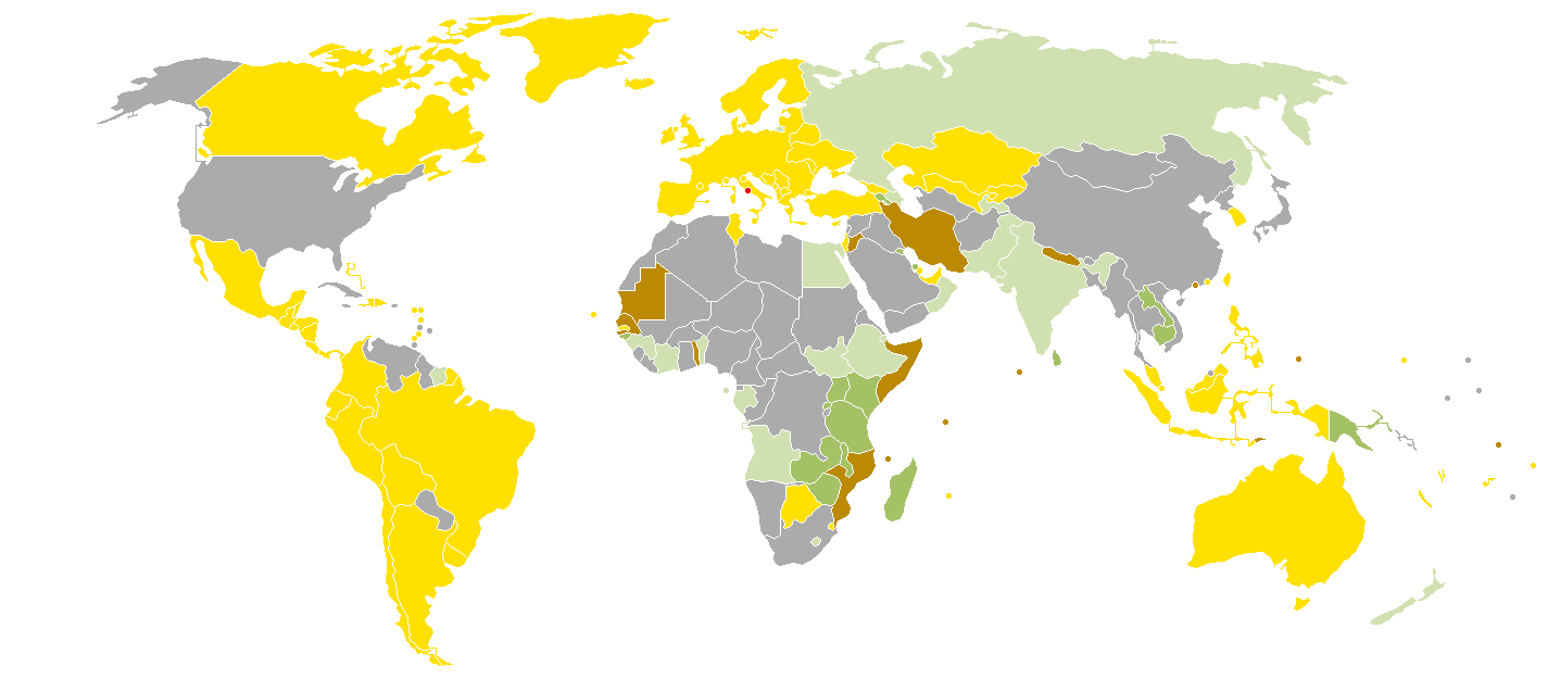 Visa requirements for Vatican citizens Vatican Visa-free Visa on arrival eVisa Visa available online or on arrival Visa required in advance